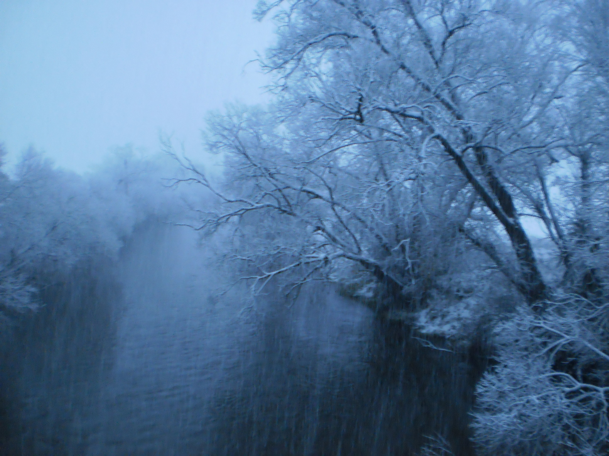 First snow in November on 2015-11-22, near the village of Bellnhausen (Fronhausen), Germany.